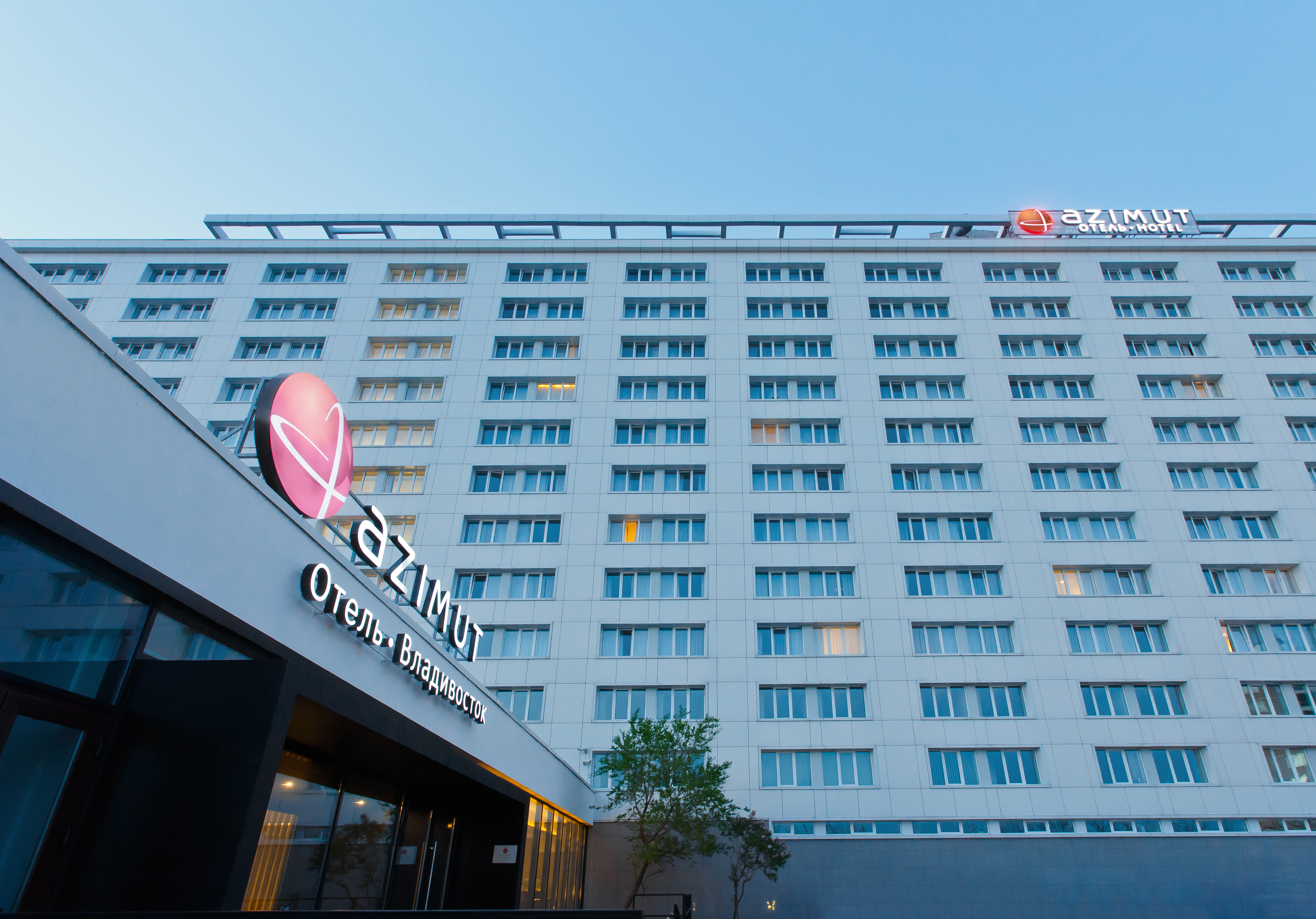 Azimut Hotel Vladivostok. Azimut Hotels chains